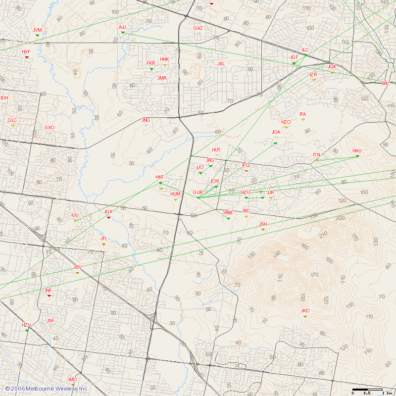 At the centre is node GUR, in Rowville. As one of the web developers responsible for creating and maintaining the system used to generate such images, I release it under the Creative Commons CC-BY-SA-2.5, with the intent to use it as a demonstration of the website.